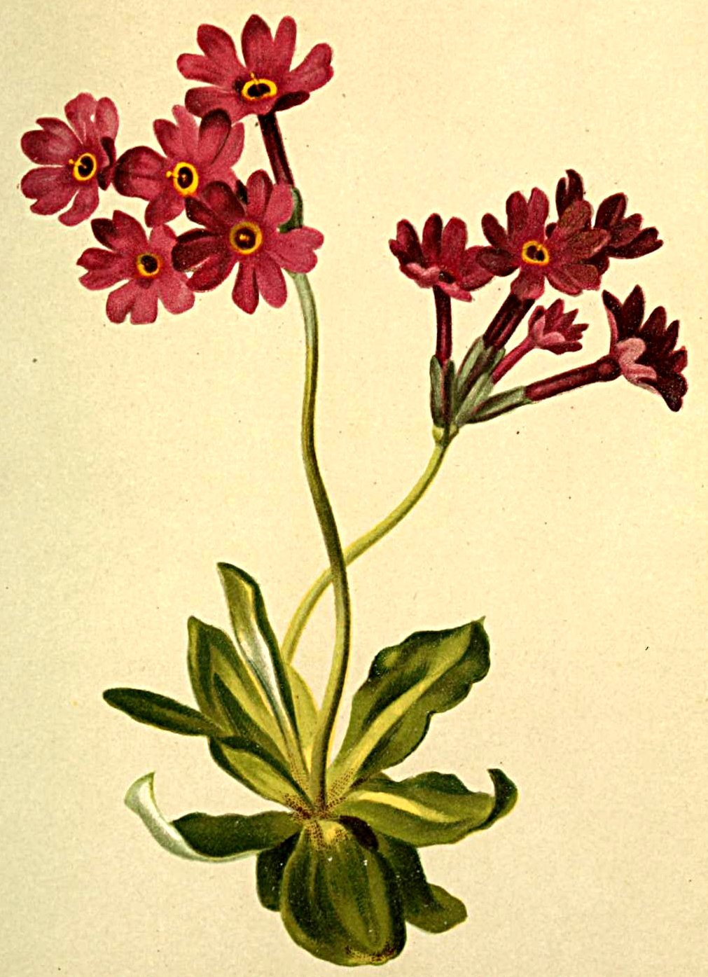 Primula halleri (formerly known as Primula longifloraPlantFiles)